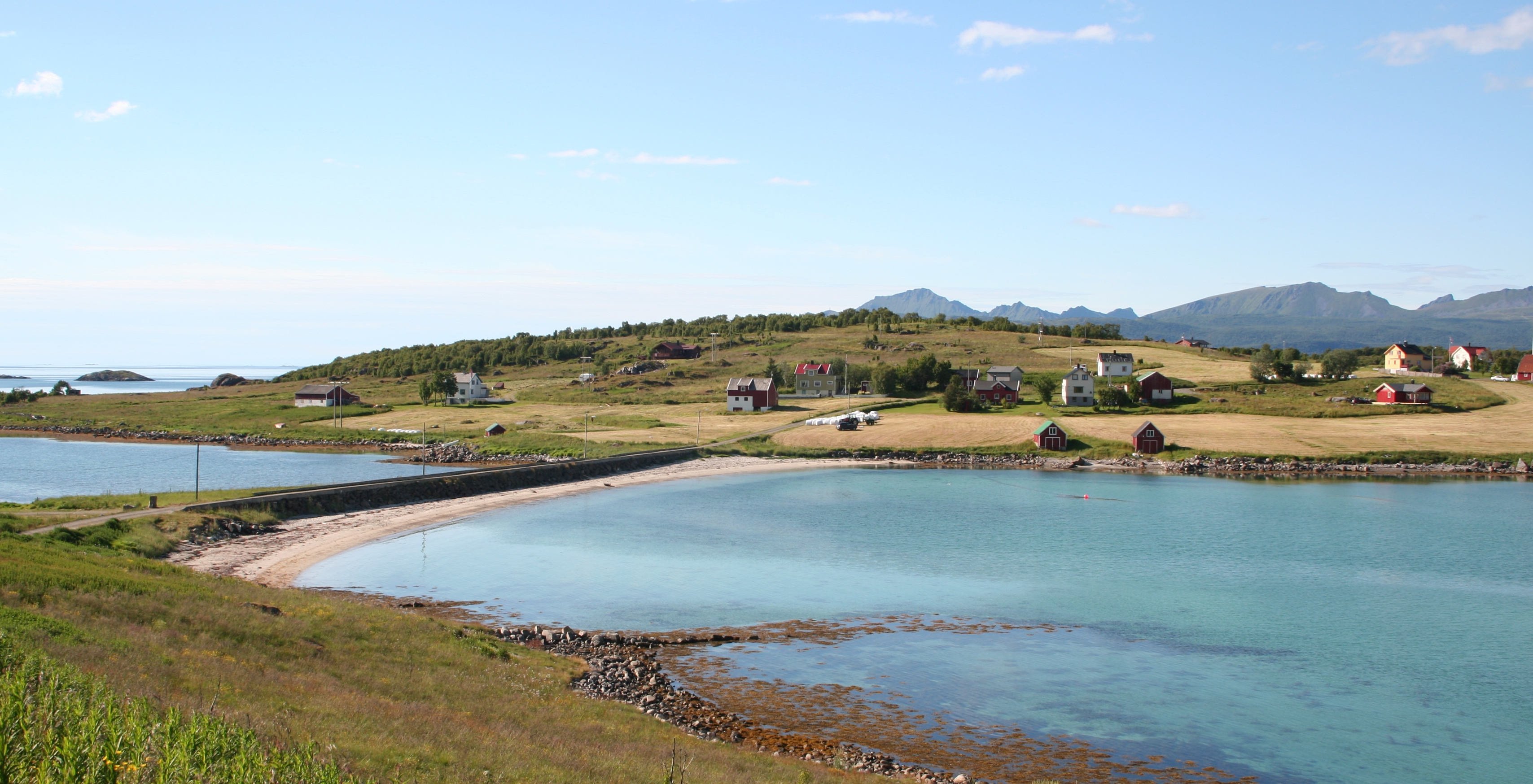 Holdøya island in Hadsel municipality, Norway